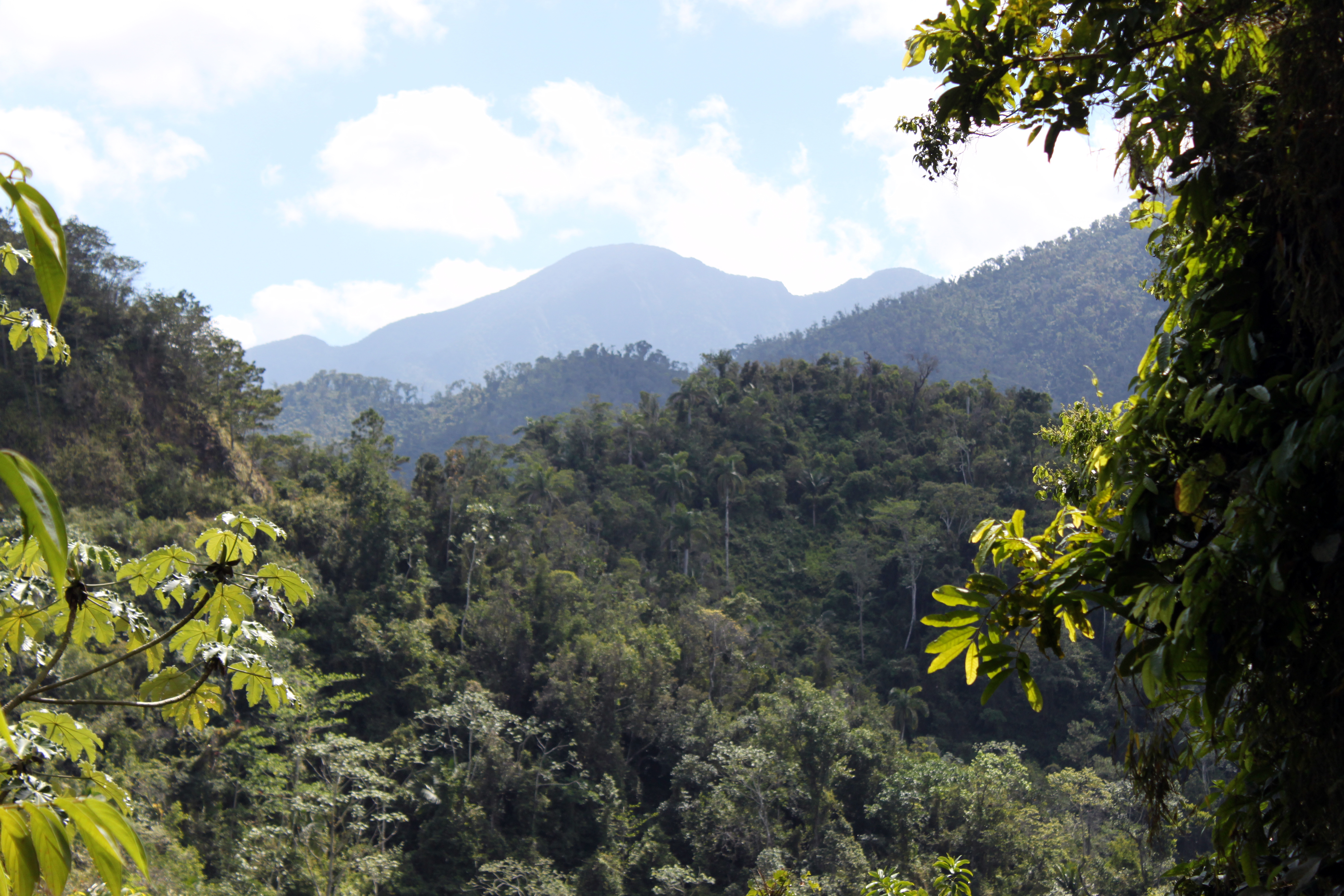 The Sierra Maestra — in Parque Nacional Turquino (Turquino National Park), Santiago de Cuba Province, southeastern Cuba With Cuban moist forests ecoregion flora.